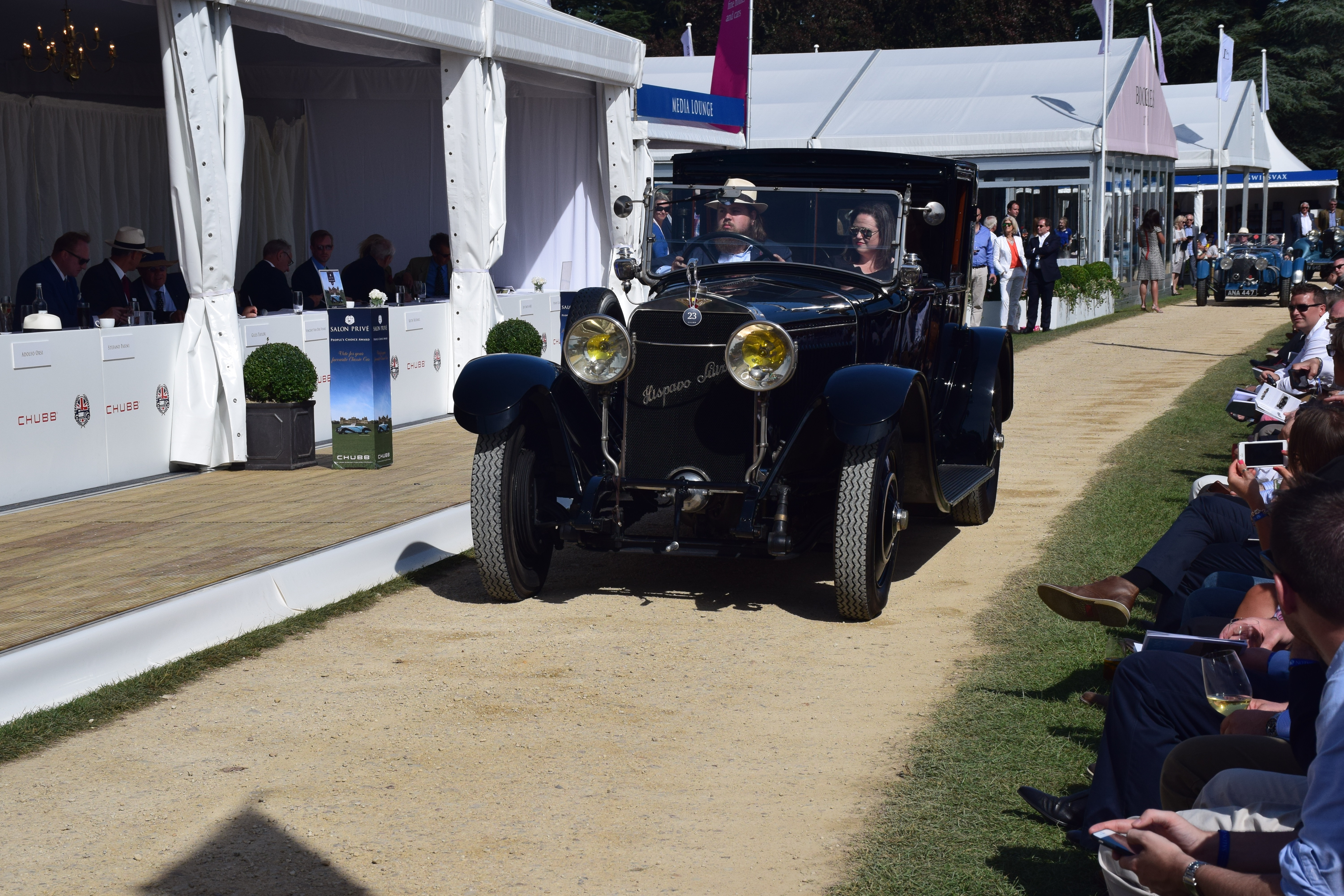 1924 Hispano Suiza H6B Coupe De Ville